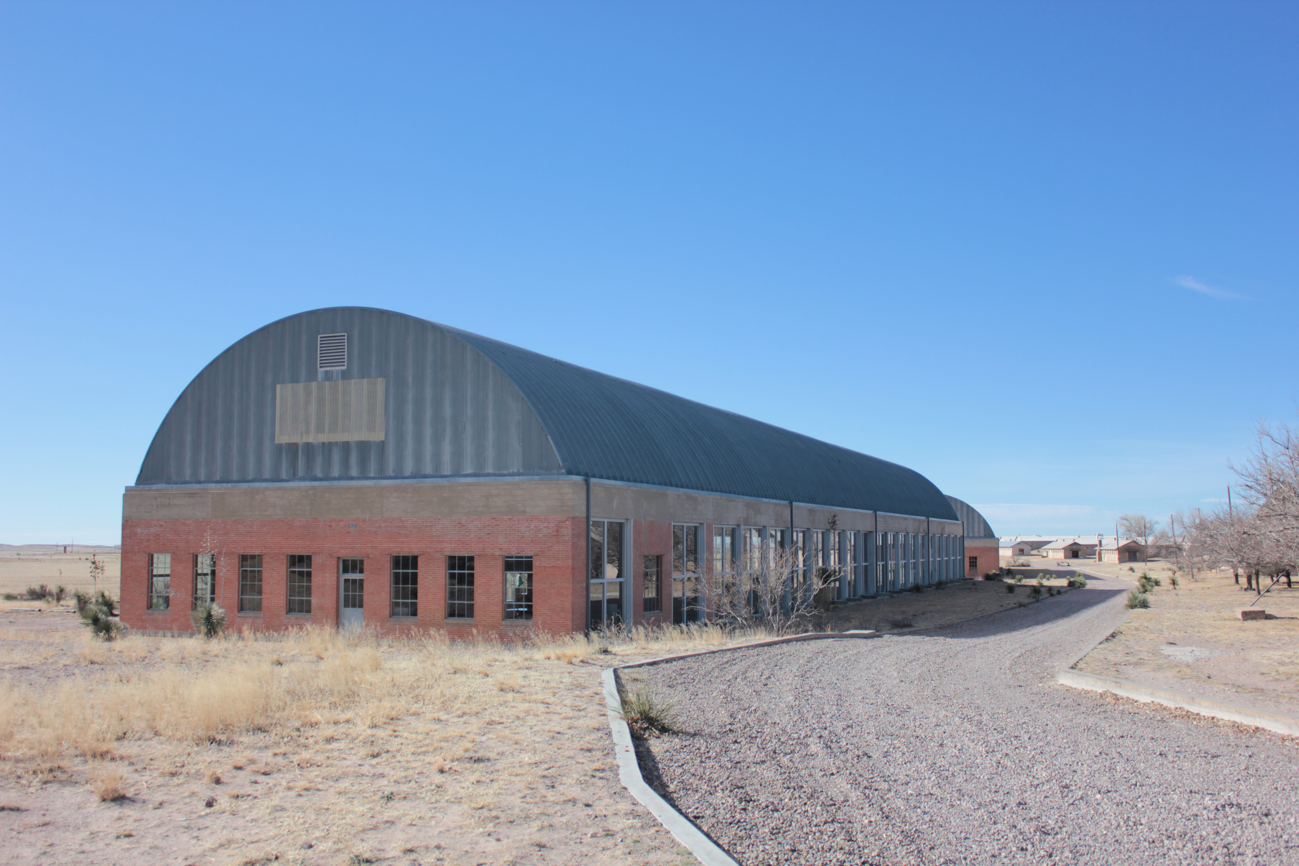 The Chinati Foundation / La Fundación Chinati, Marfa, Texas